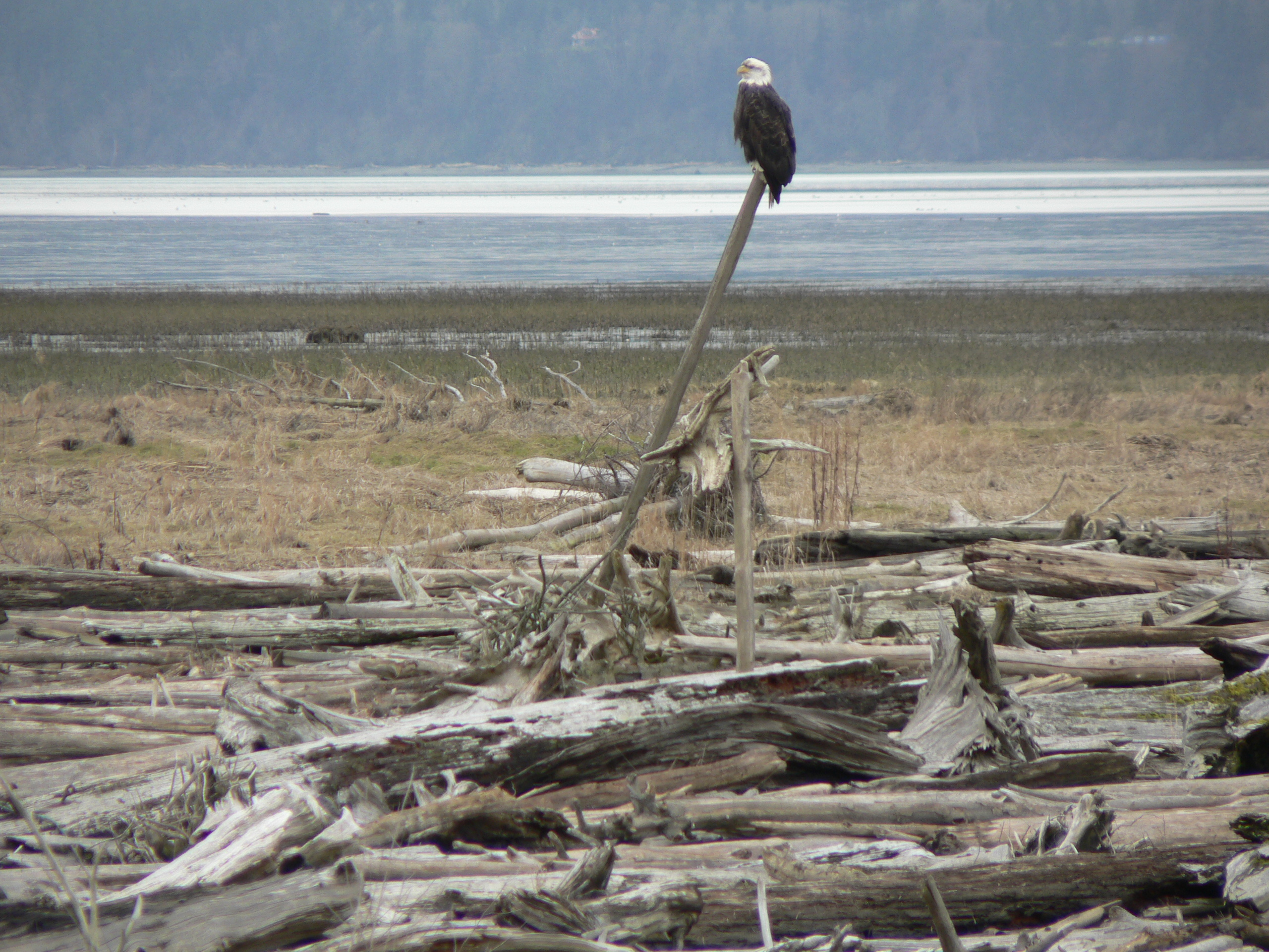 Bald Eagle, driftwood, Skagit Bay beyond